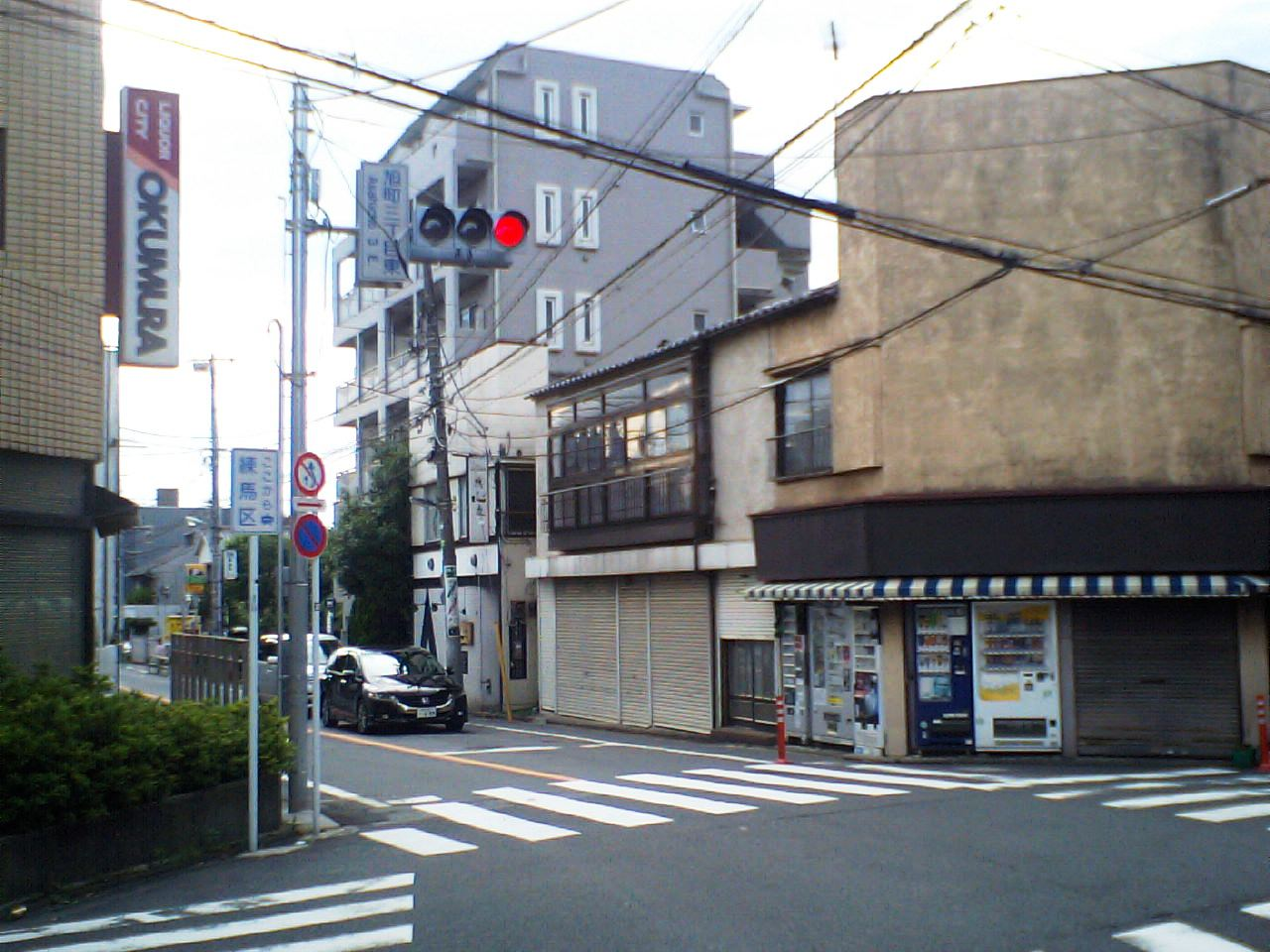 Asahicho-3chome-higasi-crossing,Asahicho-3,Nerima ward,Tokyo.